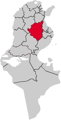 Map of Tunisia with highlighted Kairouan Governorate